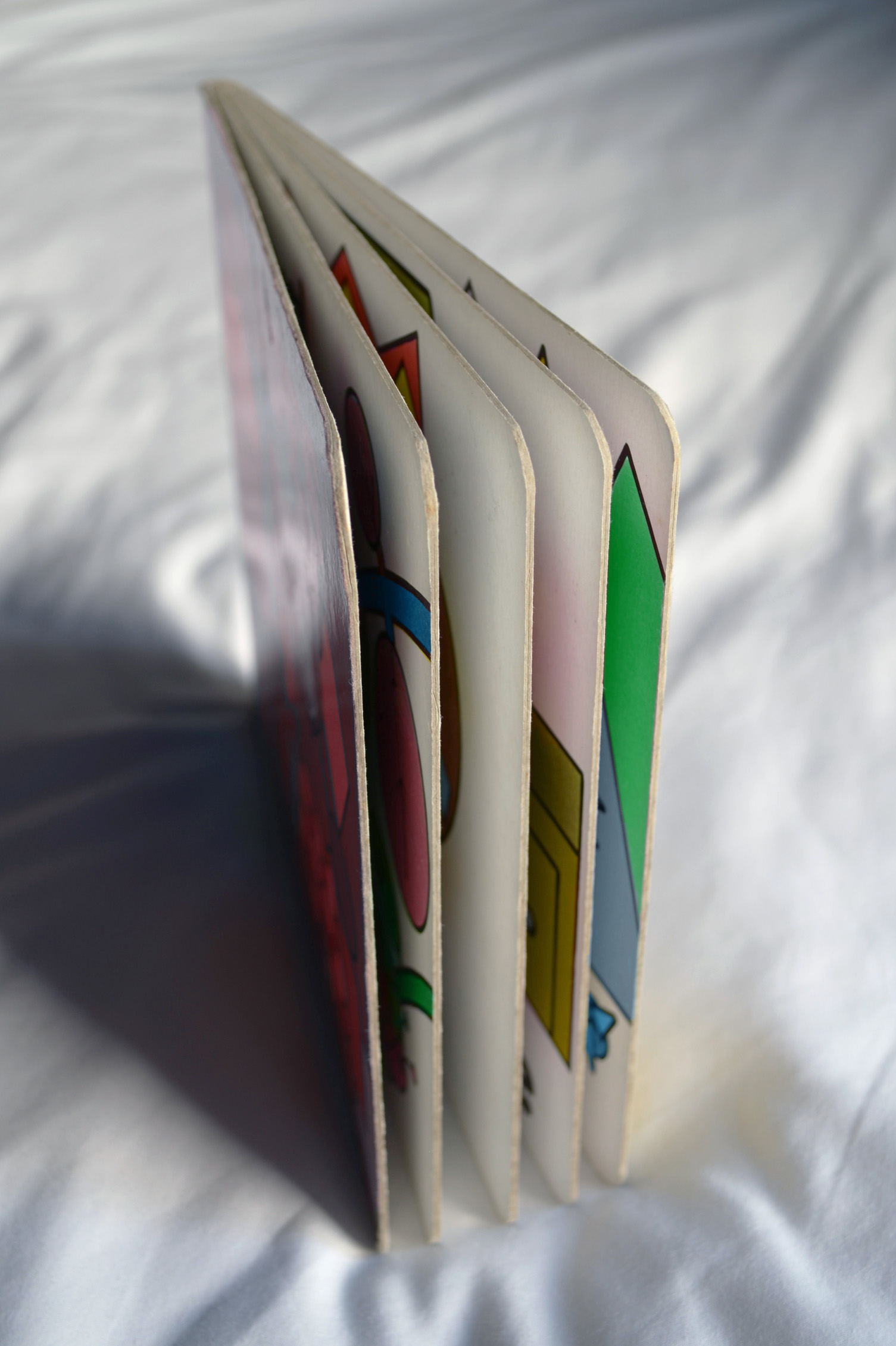 This is a typical example of a children's board book. Note how thick the pages are (just over 1mm each) and how few of them there are there. (The aim is to show the physical design of the book and not the content. For reasons of copyright, and to focus on the pages, this photo has been shot edge on with shallow focus; thus any book content visible here is intentionally illegible and/or de minimis. (The book is called "Shapes" and is- AFAICT- a UK publication, but this should have no bearing on copyright of image for reasons just given).)